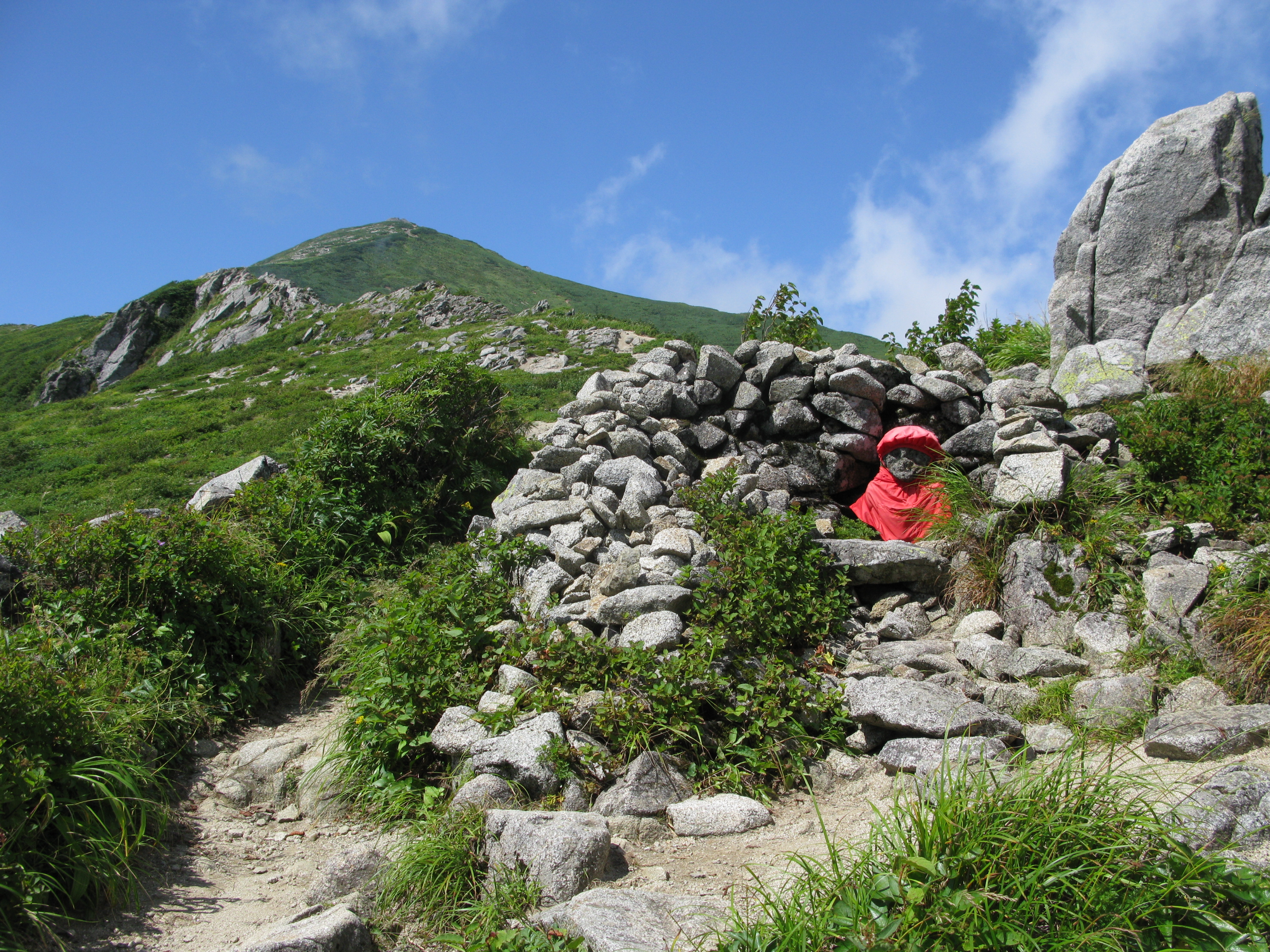 The approach to Shrine Iide-san-jinja, ‘’Uba-Gongen’’, Kitakata city, Fukushima pref., Japan